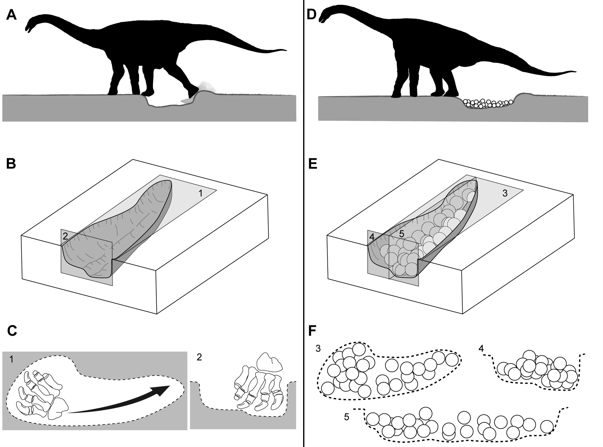 Nest excavation and egg laying. (A)–Titanosaur female using back foot to excavate nest. (B)–Block diagram showing asymmetrical nest morphology in plan (1) and cross section (2) view. (C)–Titanosaur pes and excavated pit in plan and cross section view (1, 2, respectively). Note the asymmetric feature of the excavated hole in frontal and plan views and reconstructions from Figure 4. Pedal reconstruction after [82]. (D)–Egg clutch produced in mass by female. (E)–Block diagram of nest and eggs showing asymmetrical egg distribution in plan (3), frontal (4) and lateral (5) views. (F)–Egg arrangement within the nest from three views.